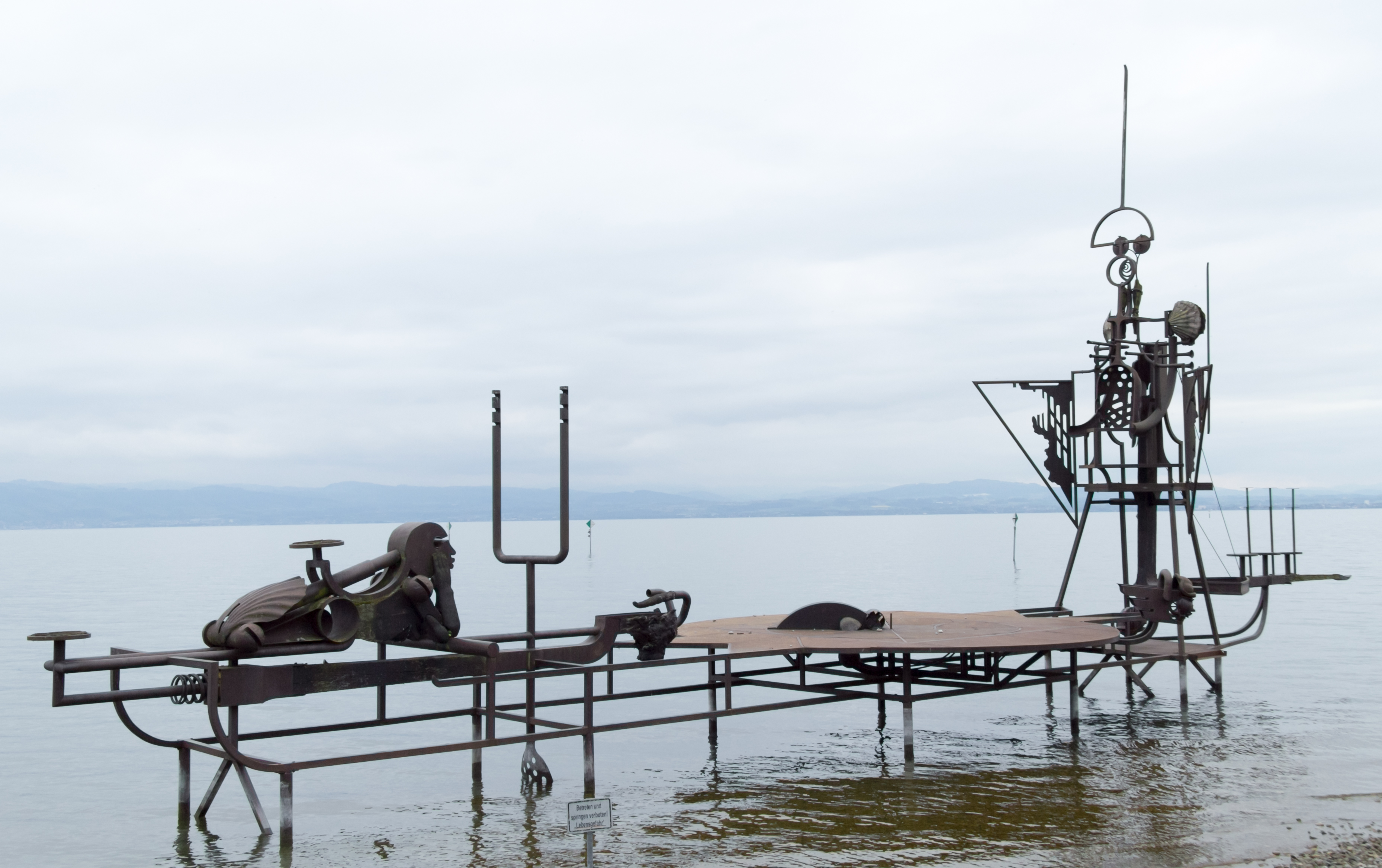 The boat of sound (Klangschiff "Im Augenblick") from Helmut Lutz in Friedrichshafen.